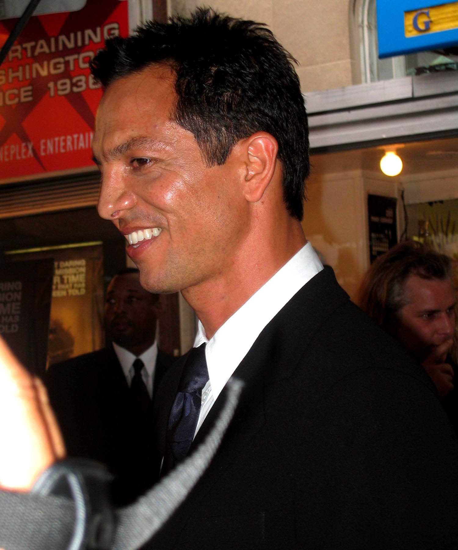 Benjamin Bratt, American actor talks with reporters on the red carpet at the July 28 premiere of his movie "The Great Raid" in Washington.